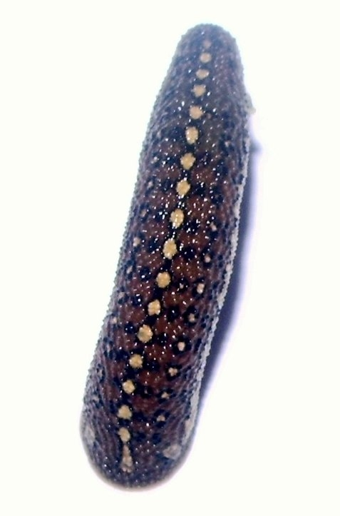 Each individual Phytobdella catenifera has a slightly different chain-linked pattern on its back